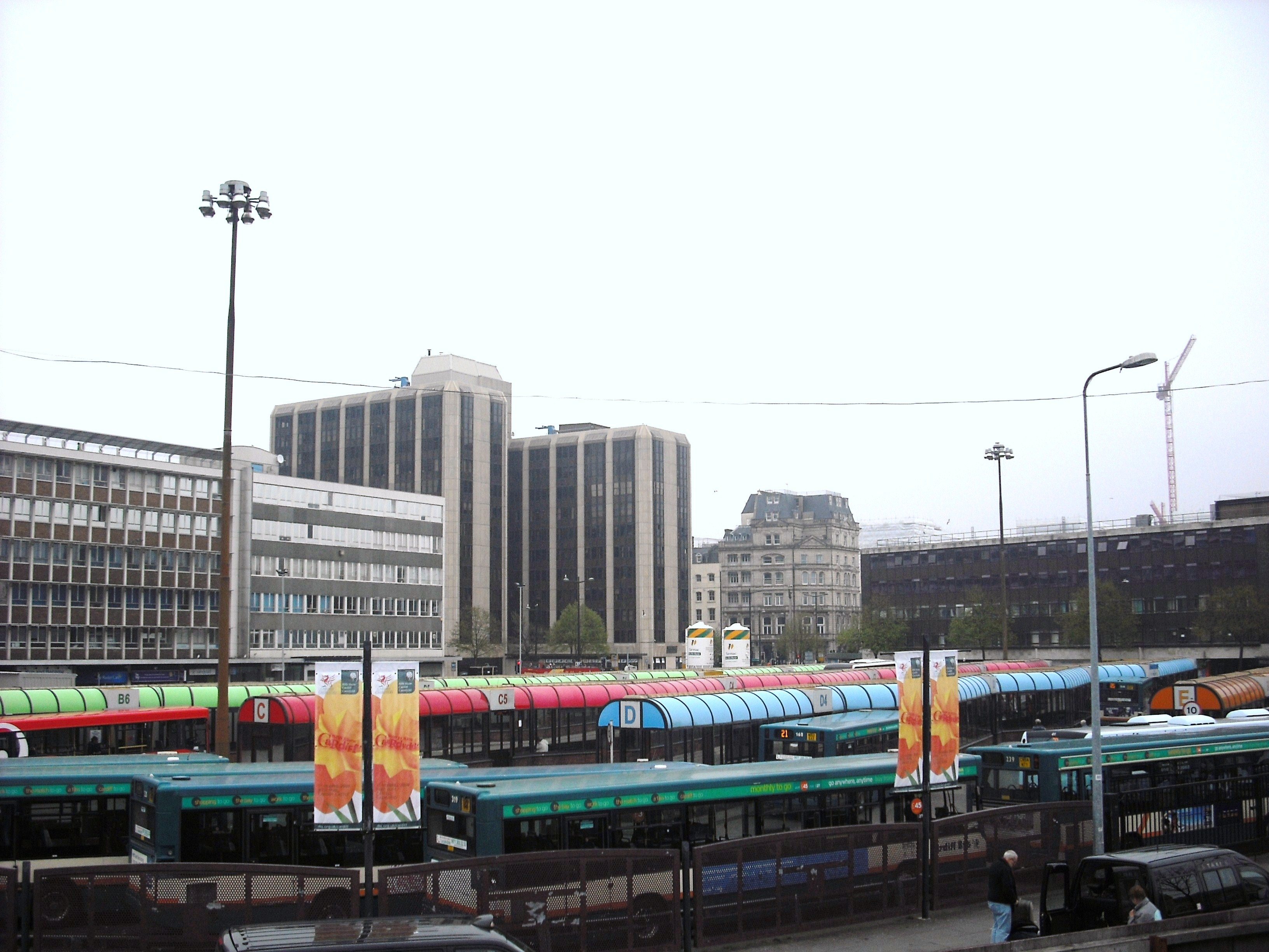 A view of Cardiff Central bus station looking north west.